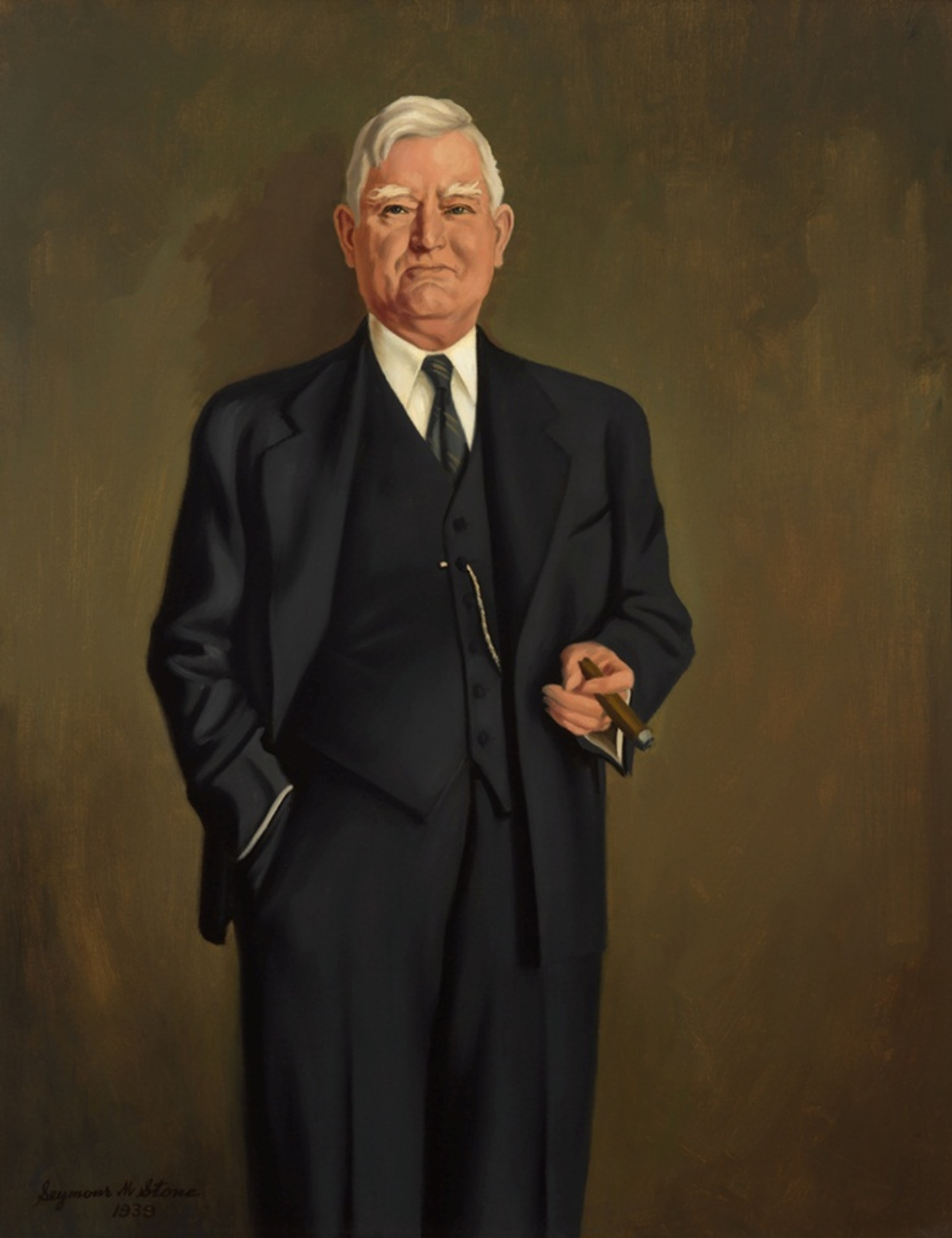 John Nance Garner, Vice President of the United States (1933-41).